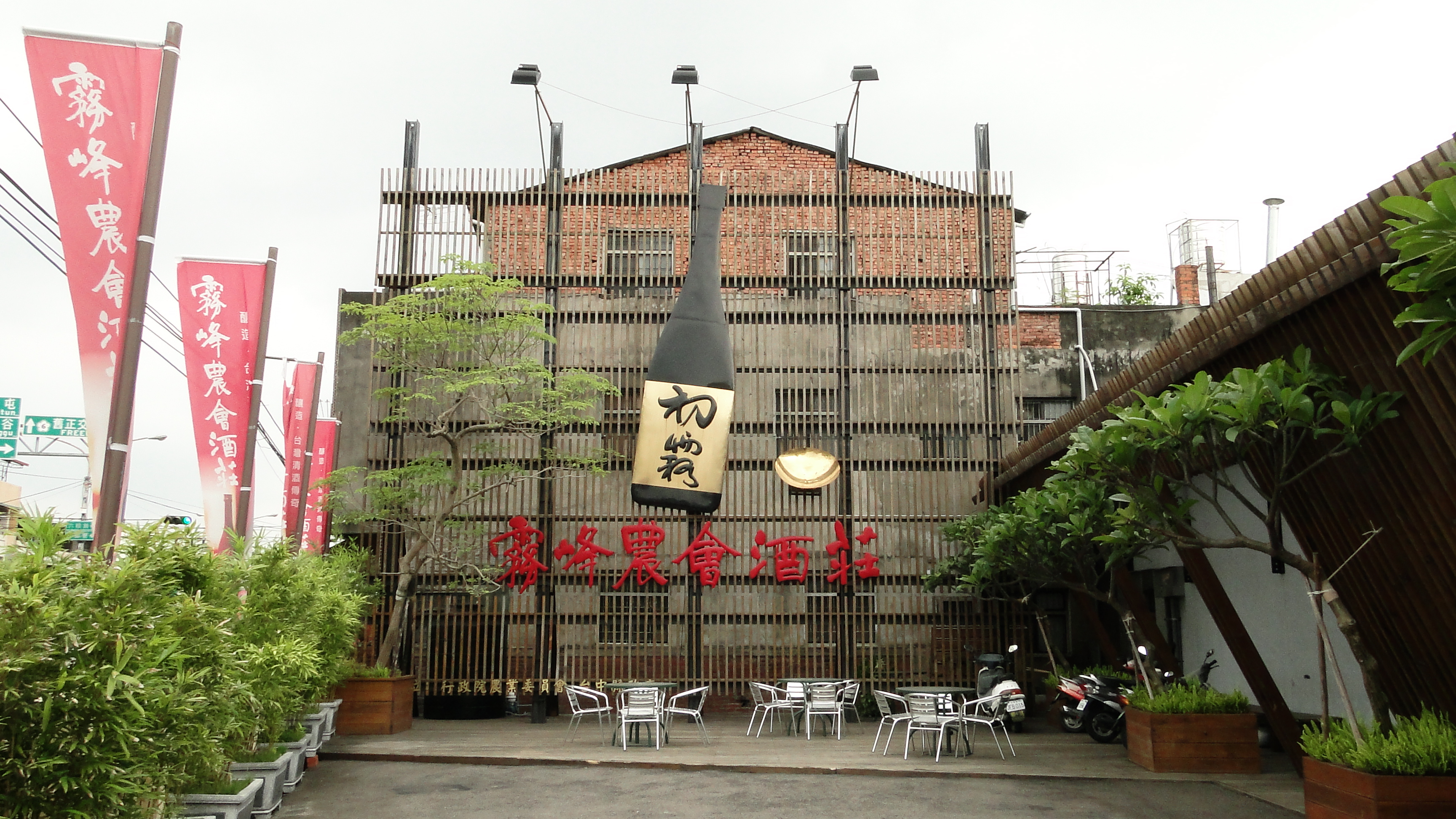 Wufeng Farmers' Association Winery